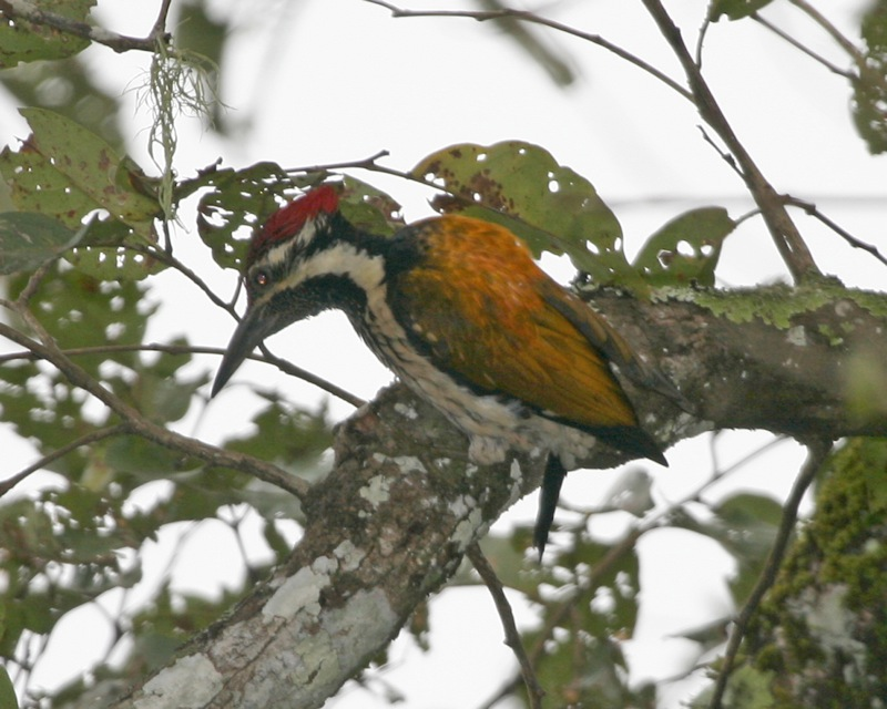 Black-rumped Flameback Dinopium benghalense aka Dinopium benghalese Subspecies : Dinopium benghalense tehminae Location: Periyar Lake, Kerala, India 12th. December 2005 The Black-rumped flameback (Dinopium benghalense) is found in open forests and cultivated areas throughout the Indian subcontinent. The male has a red crown while the female has a dark 'forehead" and red rear half crown. The angle of the bird above makes it difficult to determine the sex. Better seen in this photo This is a more definite female This subspecies or race , tehminae, is found in the south west of India. Malayali names: Maram tolachi, Tachchan kuruvi Distribution